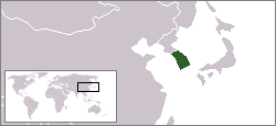 Location map for South Korea; Originally created for English Wikipedia by User:Vardion.